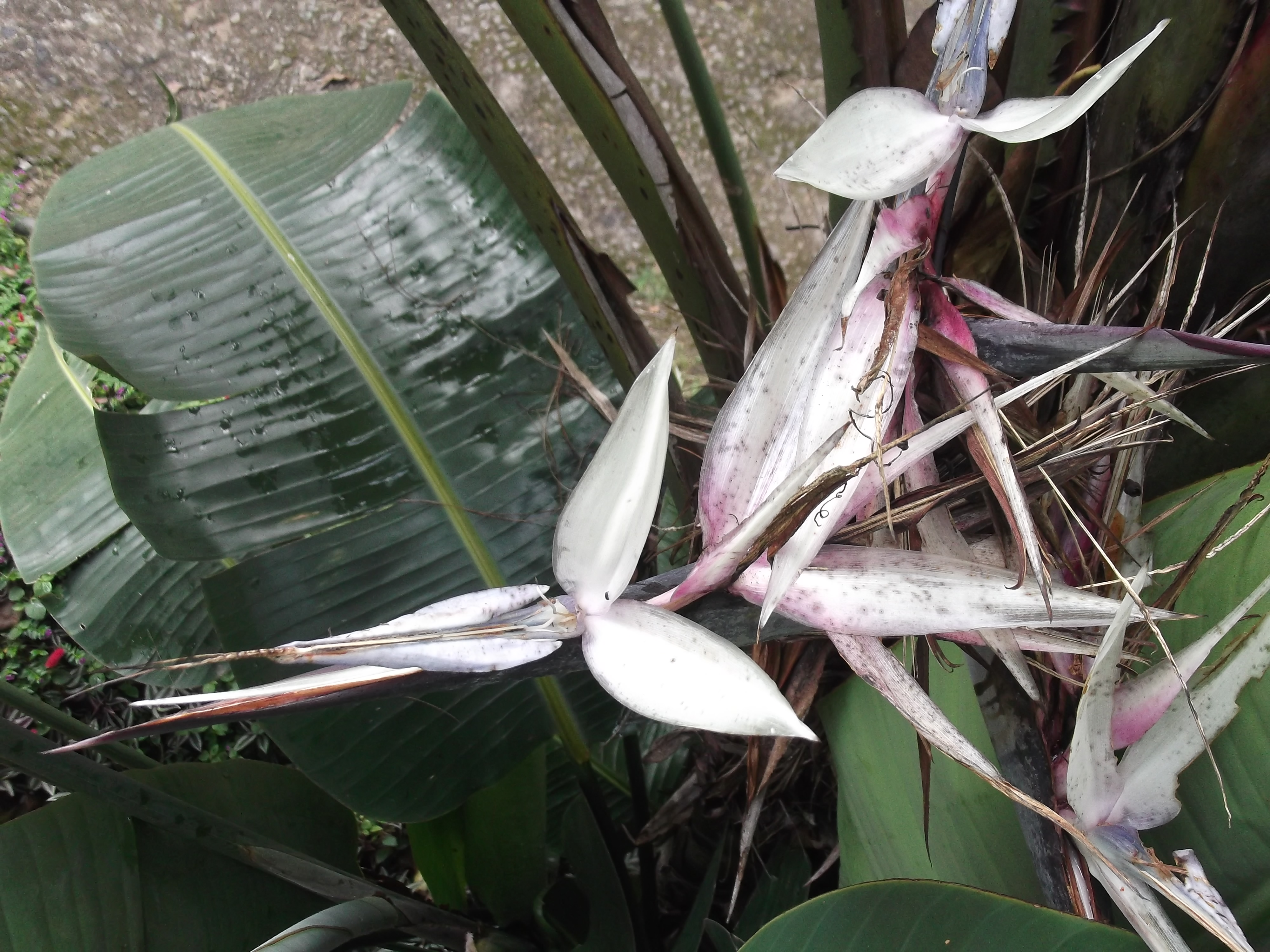 Great white strelitzia,palm like tree,leaves fan like.Flowers white.